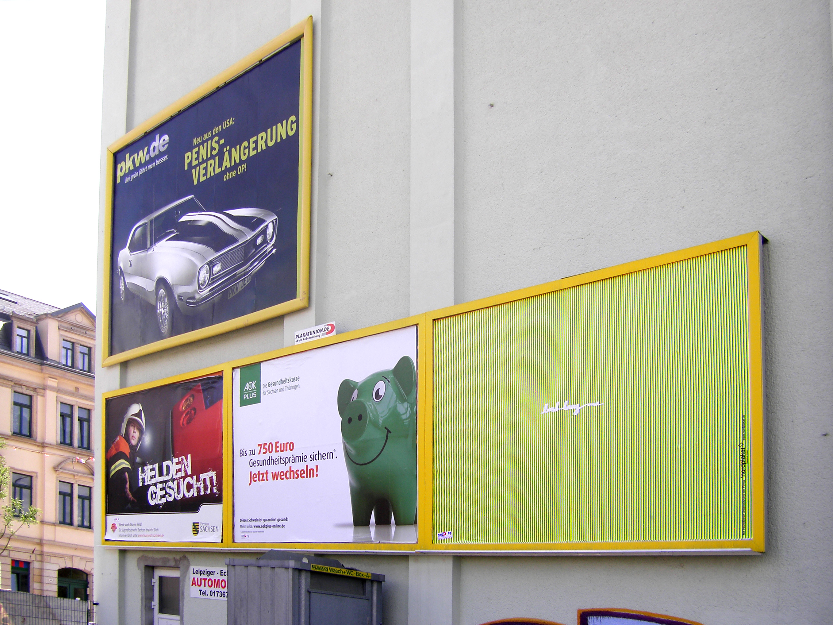 Martin Hoefer, Best Buy Me / No. 02, Billboard, Dresden 2009